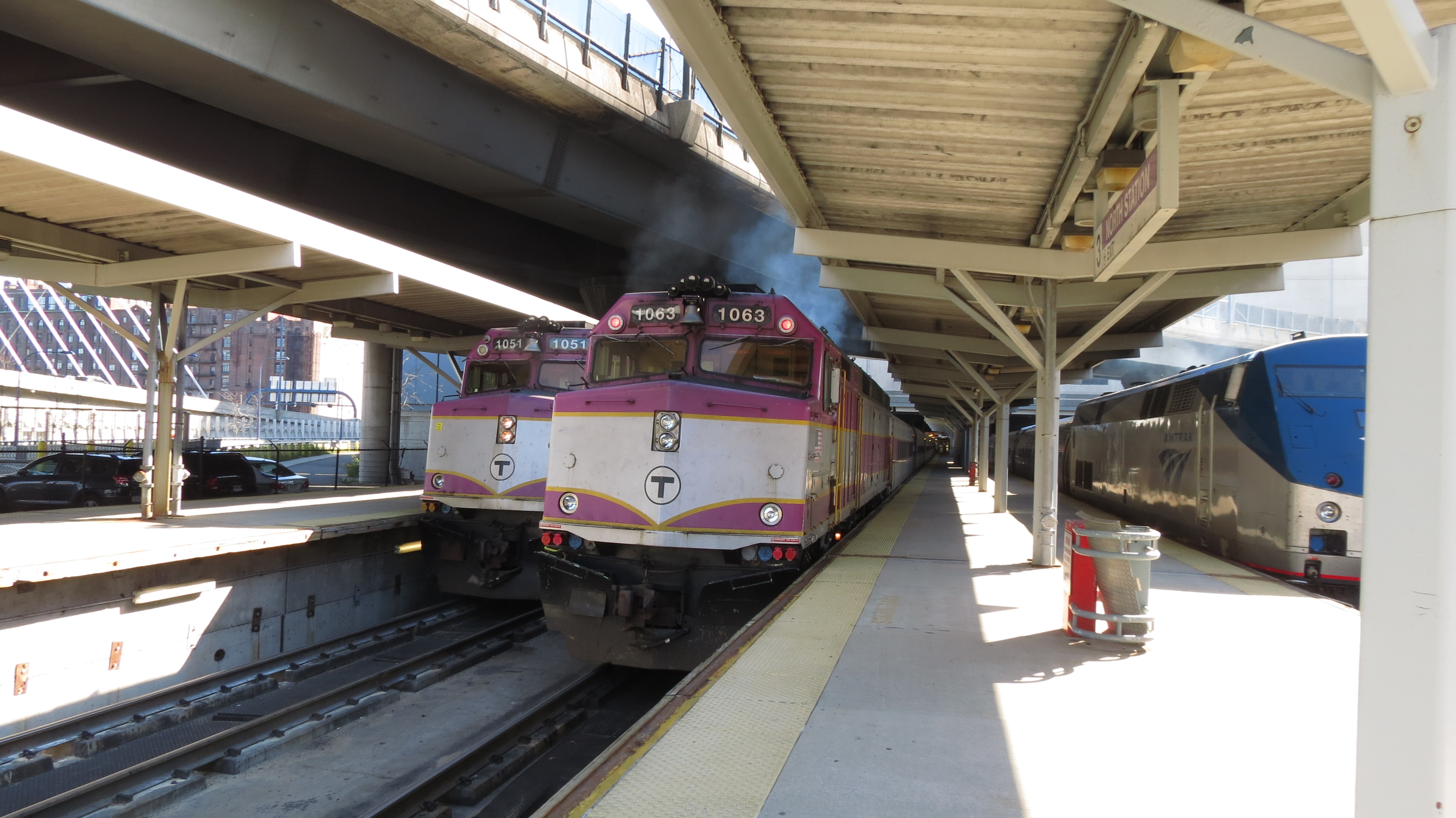 MBTA F40PH-2C locomotives and a Downeaster train in North Station